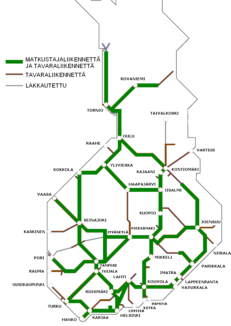 Finnish railroad network in 2006. Green line is a railroad for passenger and cargo traffic. Brown line is a railroad for cargo traffic only. Gray line is an abandoned railroad.